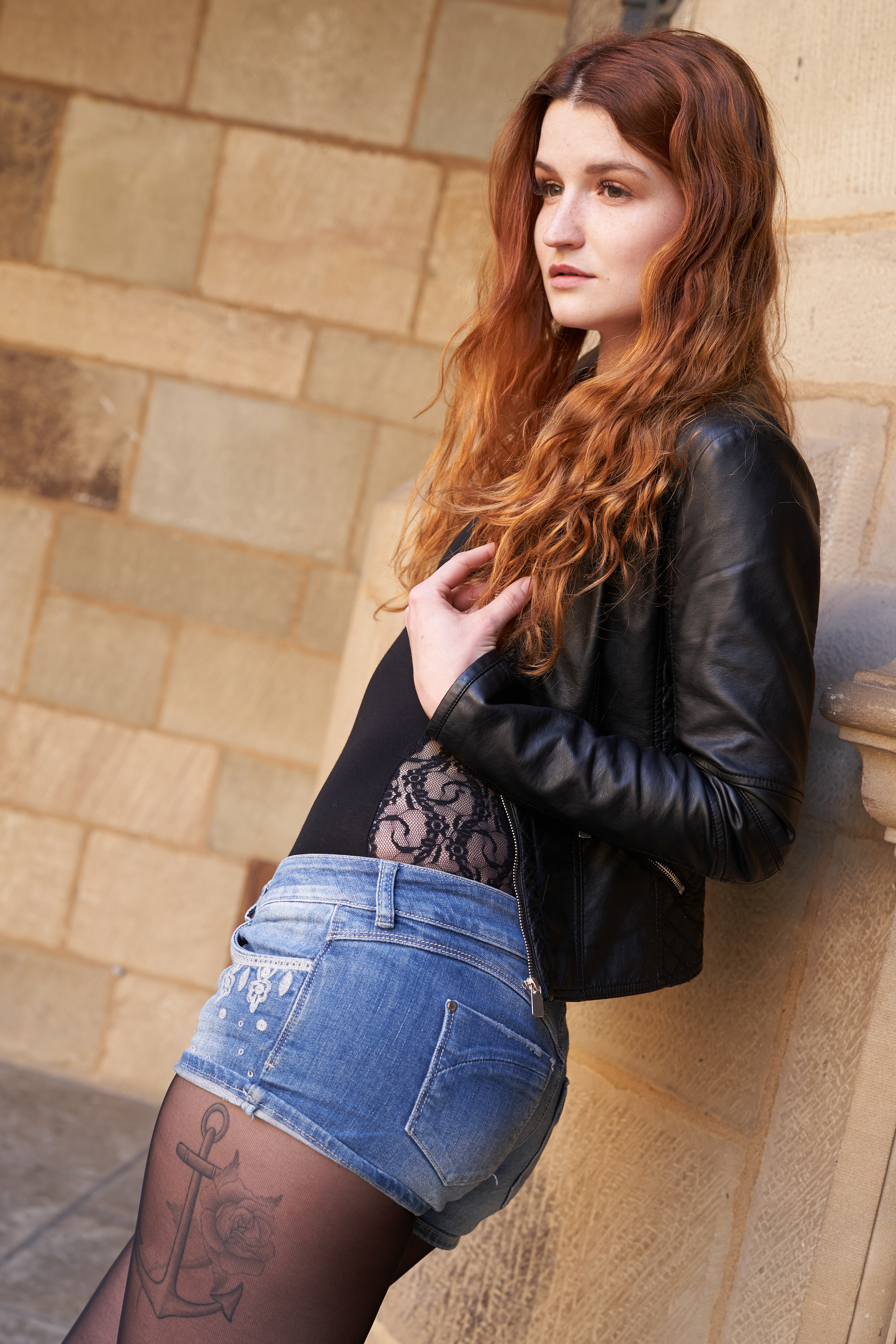 While the background is tilted, the model appears to stand rather straight. In this example for fashion photography, this is done by tilting the head forward, positioning the front leg backwards and upper arm along the frames edge. Image taken with available light. Modelled by ModelTanja.